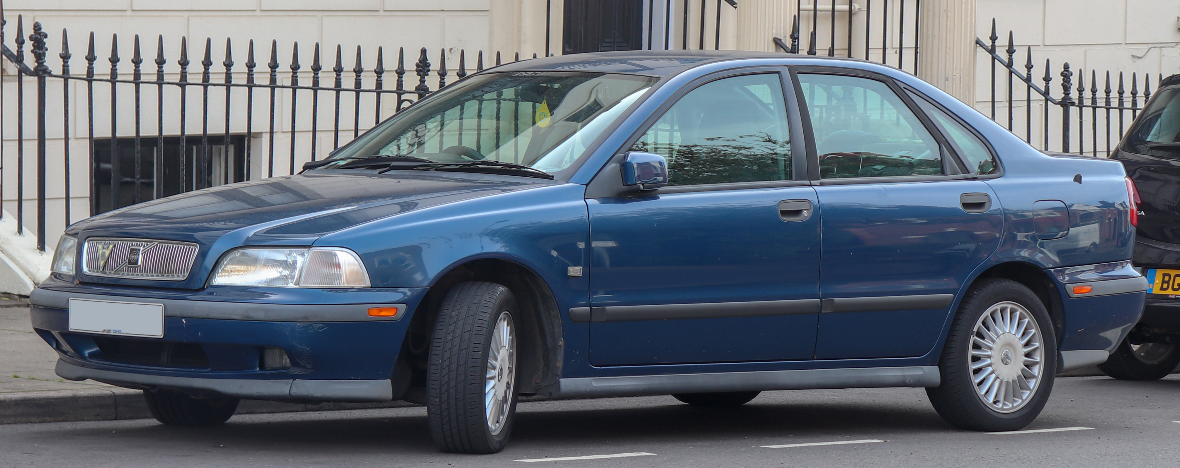 1997 Volvo S40 1.8 Front Taken in Leamington Spa